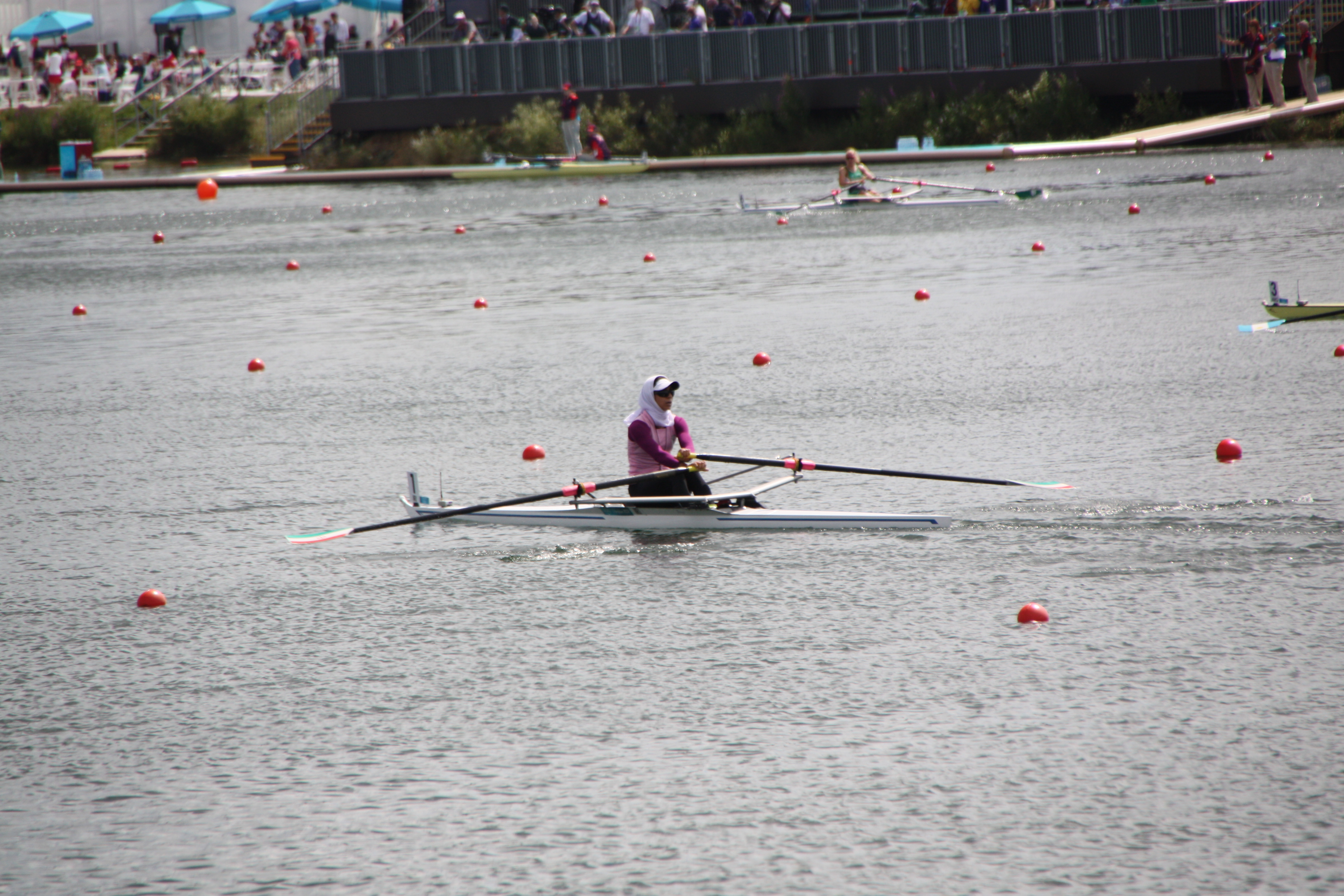 Soulmaz Abbasi of Iran in heat 1 of Women's single sculls at 2012 Summer Olympics